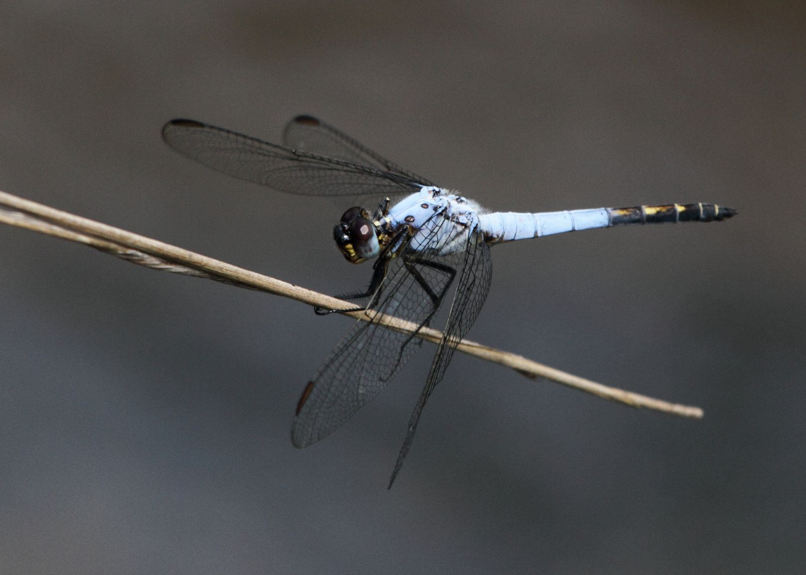 Male Eastern Blacktail (Nesciothemis farinosa). OdonataMAP record no. 11828.